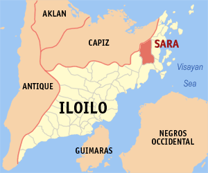 Map of Iloilo showing the location of Sara